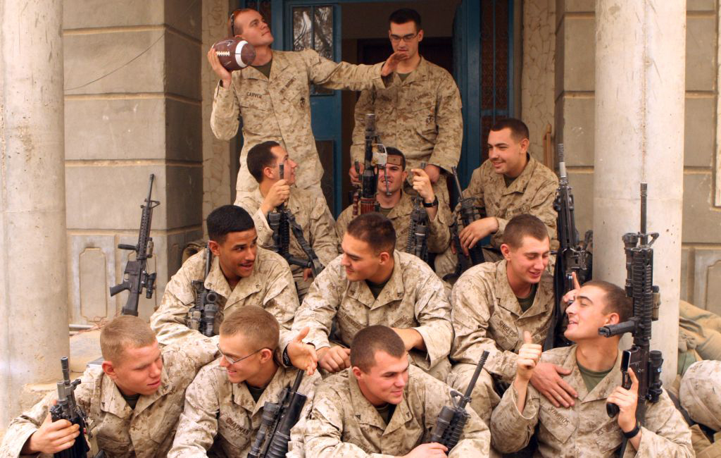 The Marines with 3rd Platoon, Police Transition Team 3, Weapons Company, 1st Battalion, 9th Marine Regiment, come together April 29 to prove their resolve and to show support for one another. Cpl. Jonathan T. Yale, a rifleman with 2nd Battalion, 8th Marine Regiment and Lance Cpl. Jordan Haerter were killed in action April 22, by a suicide bomber inside a dump truck with approximately 1,000 pounds of high explosives. "I was on post the morning off the attack," said Lance Cpl. Benjamin Tupaj, a rifleman with 3rd Platoon, Police Transition Team 3, Weapons Company, 1st Battalion, 9th Marines, with a hurtful tone in his voice. "I heard the (squad automatic weapon) go off at a cyclic rate and then the detonation along with a flash. It blew me at least 3 meters from where I was standing onto the ground. Then I heard a Marine start yelling 'we got hit, we got hit.' It was hectic."